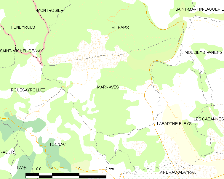 Map of French municipality Marnaves